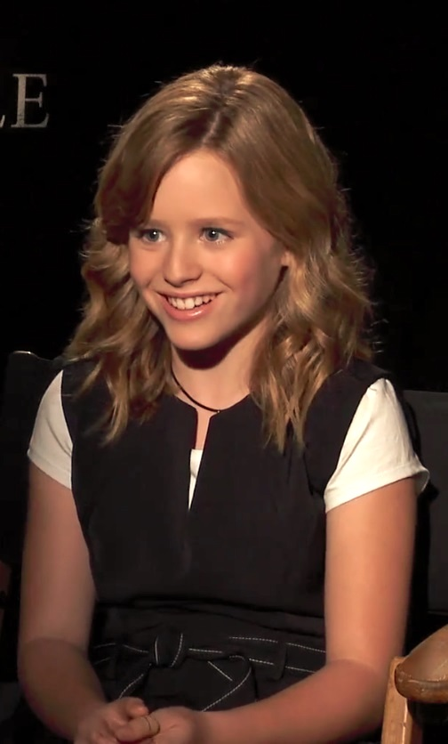 American child actress Lulu Wilson talks about her experience filming Annabelle Creation - in theaters August 11th, 2017.